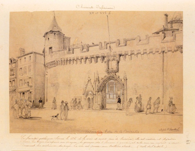 Drawing of La Rochelle's town hall.